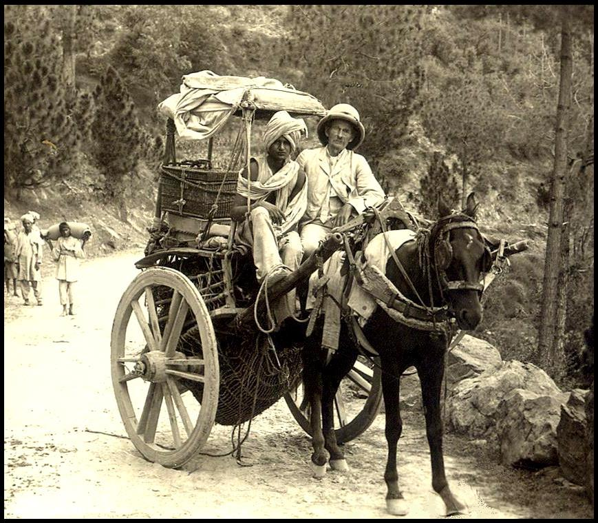 Horse-drawn carts in old India